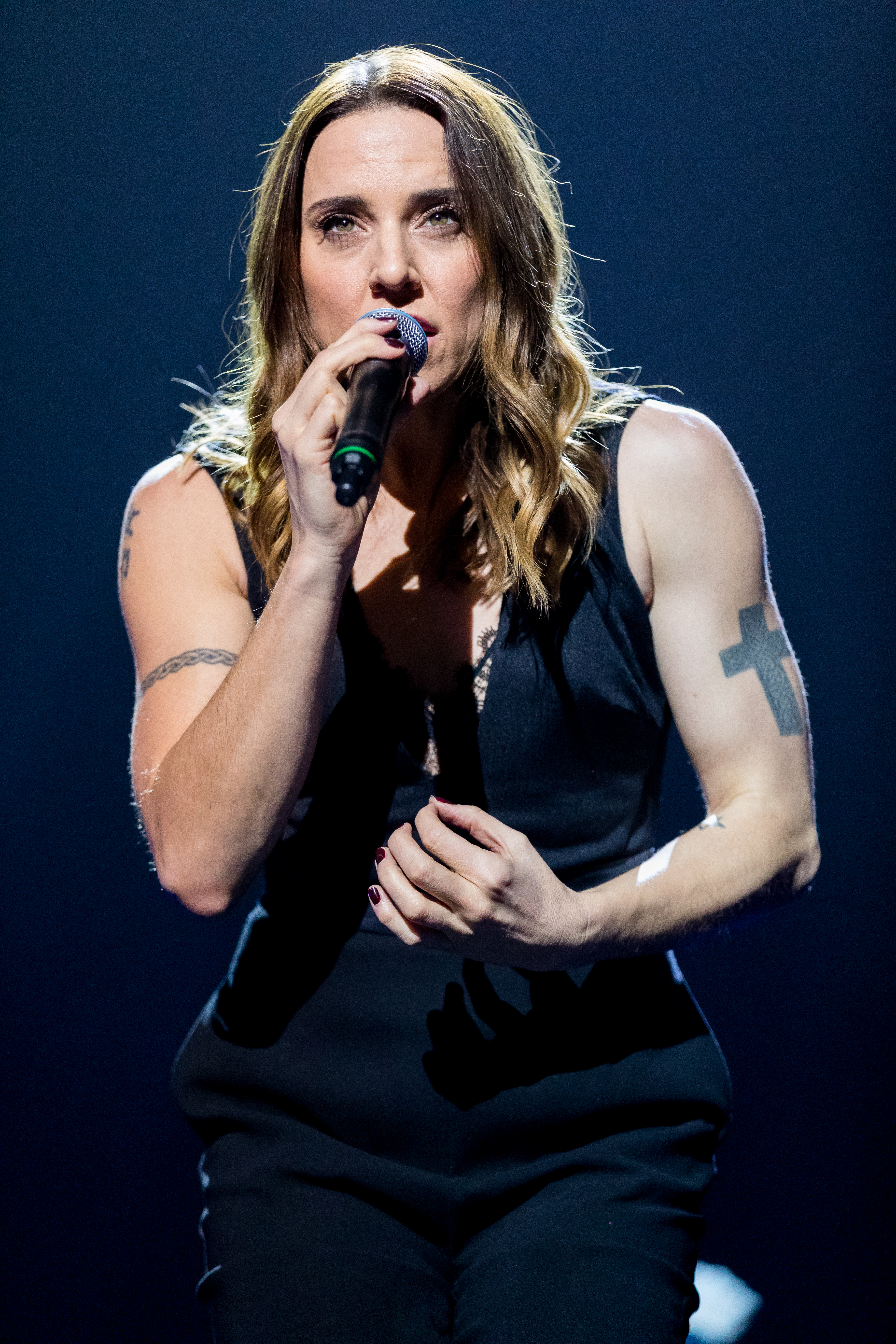 Melanie C during Night of the Proms at SAP Arena, Mannheim, Baden-Württemberg, Germany on 2017-12-22, Photo: Sven Mandel